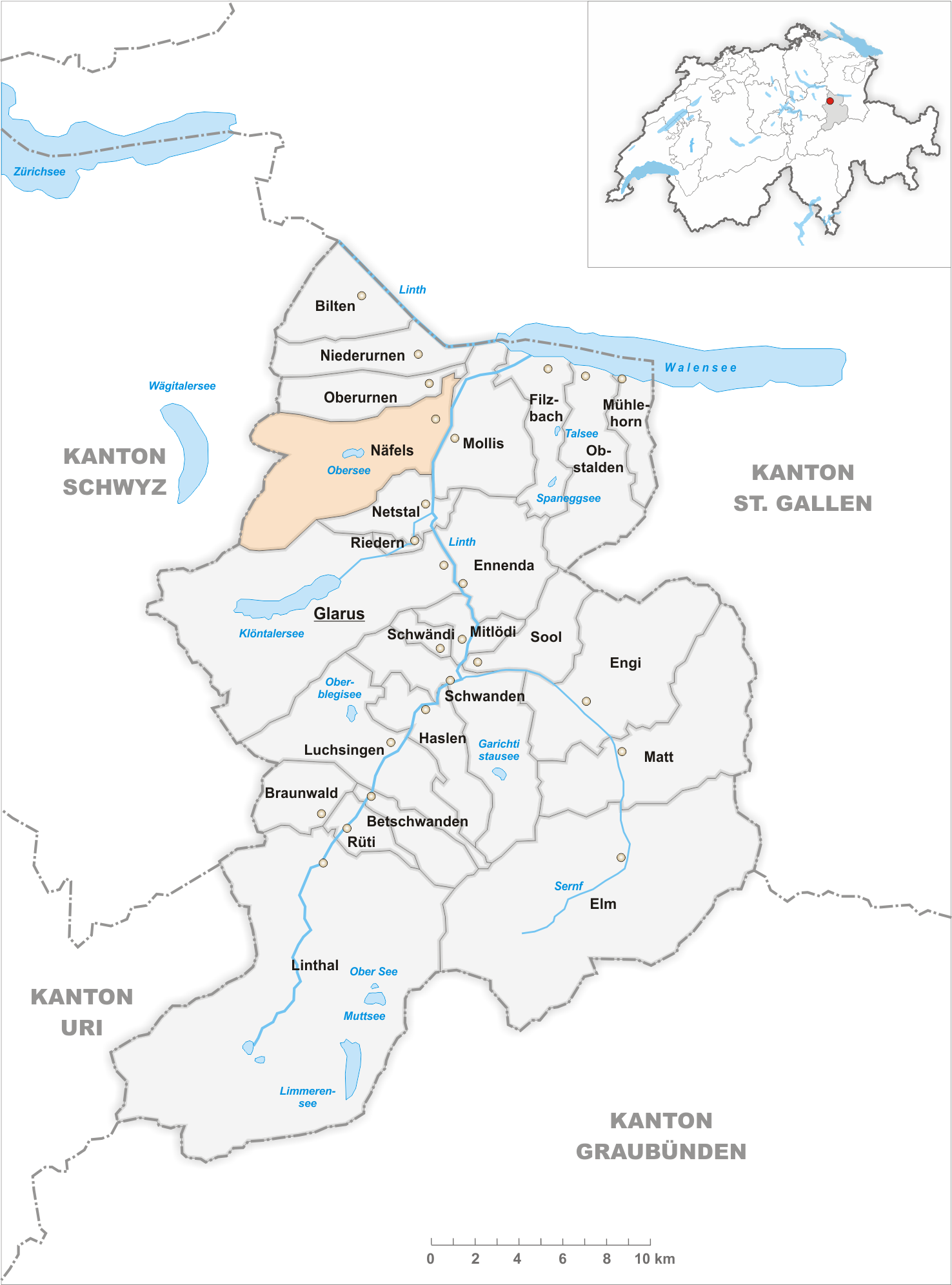 Municipality Näfels